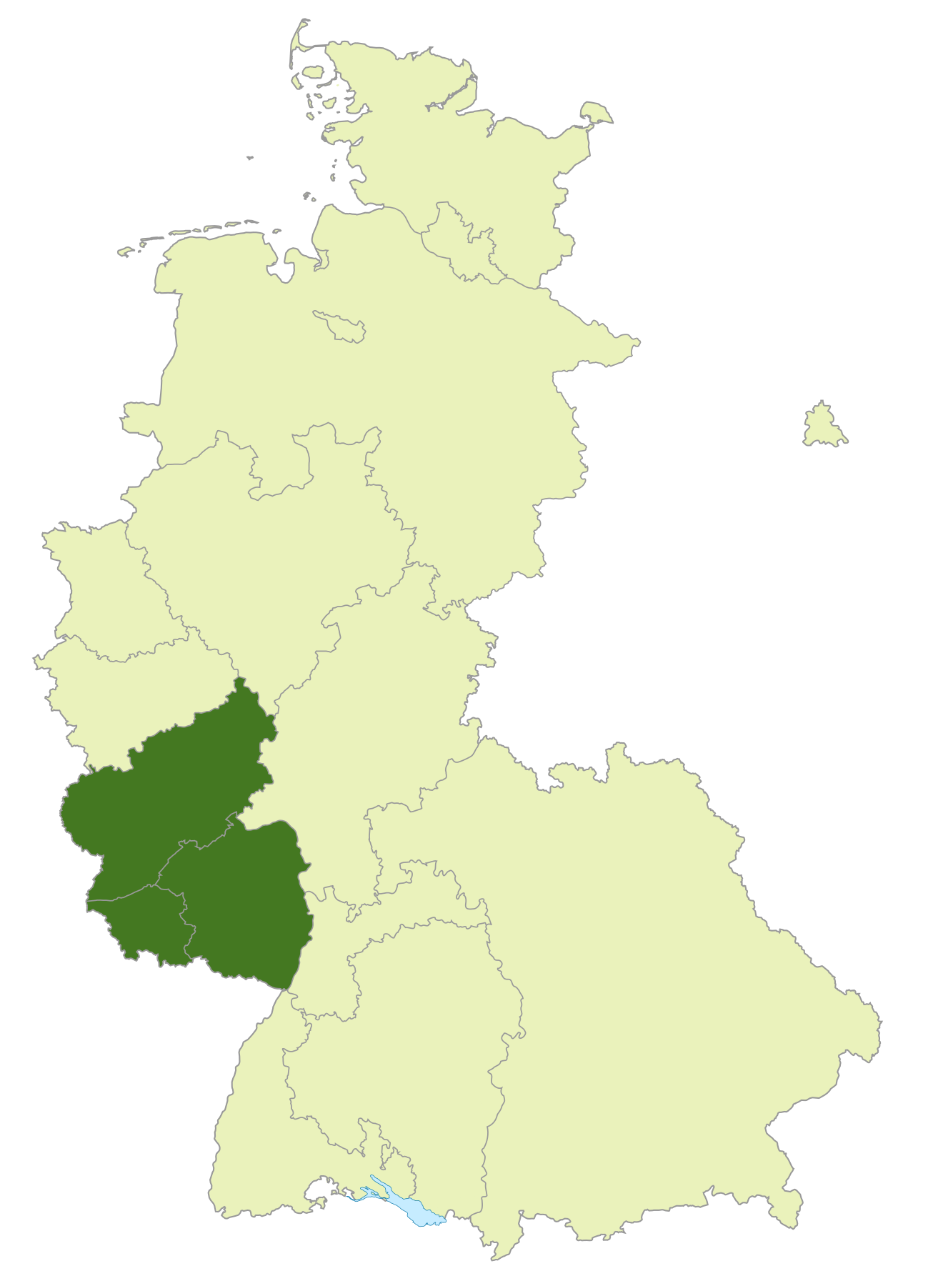 Germany's Regional Soccer Association of Südwestdeutschland,1950-1990